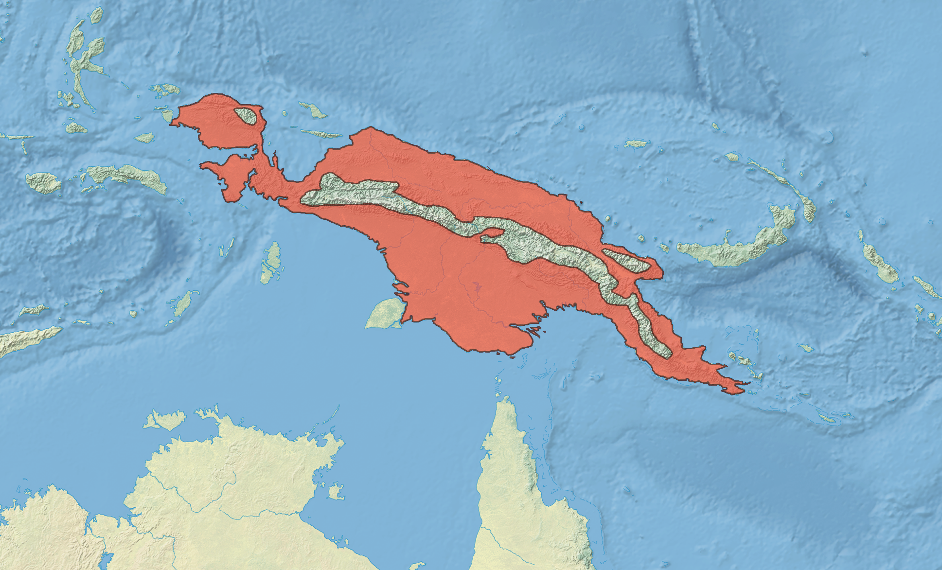 Distribution map of Hieraaetus morphnoides ssp. weiskei (sometimes considered the seperate species Hieraaetus weiskei (Pygmy Eagle or New Guinea Hawk-Eagle)). Distribution data from BirdLife International 2009. Hieraaetus weiskei. In: IUCN 2011. IUCN Red List of Threatened Species. Version 2011.2. . Downloaded on 11 February 2012. Map from Natural Earth